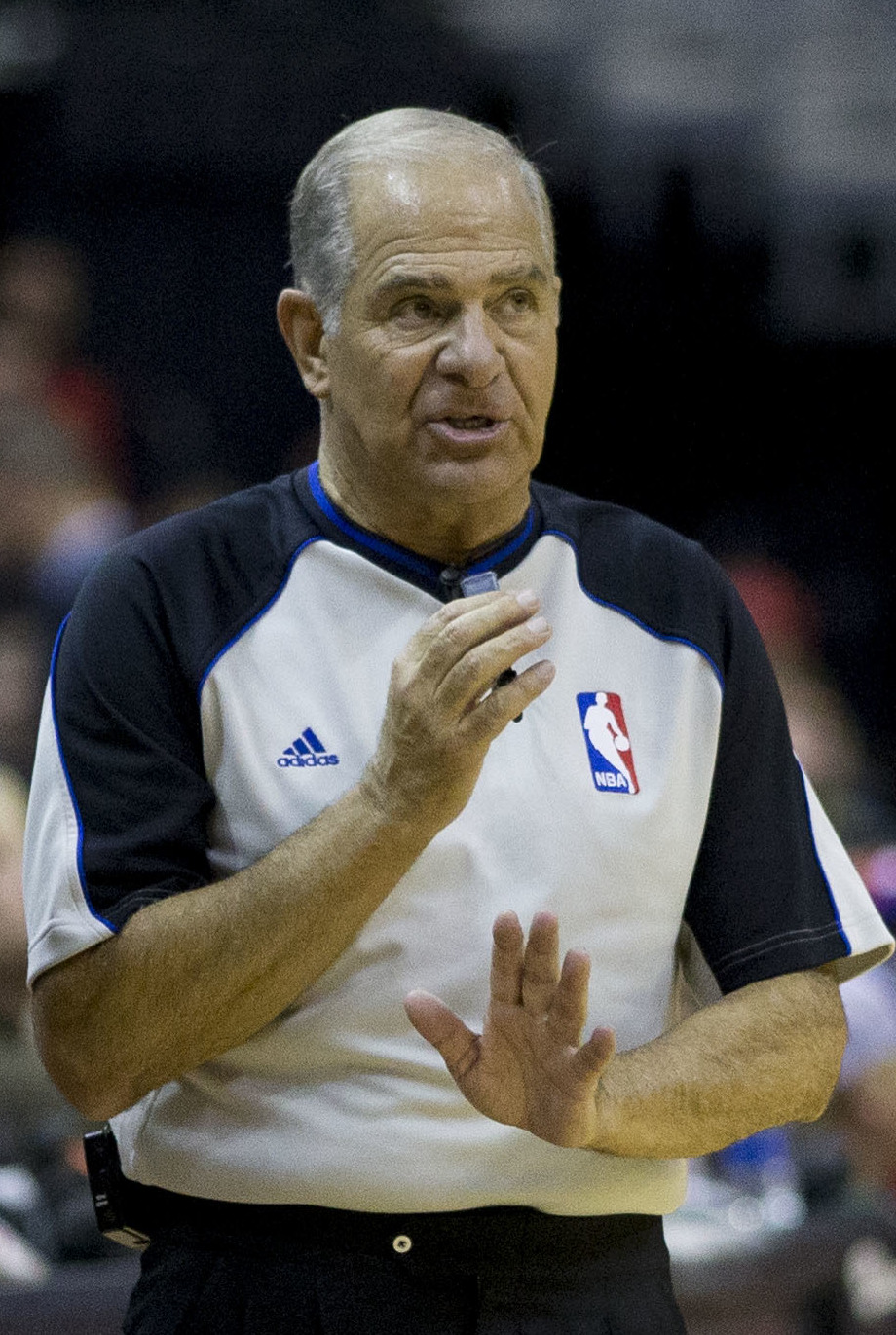 Thunder at Wizards 2/1/14